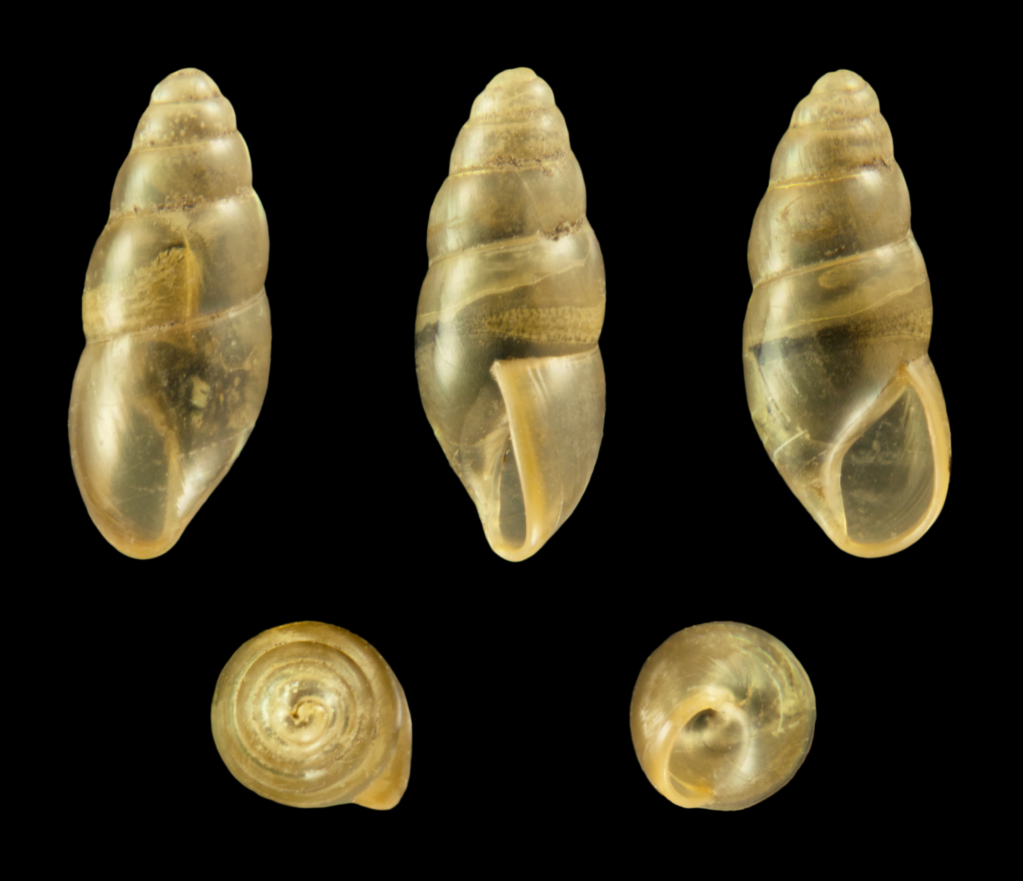 Cochlicopa lubrica (Müller, 1774); Length 0.6 cm; Originating from Rappenwörth, Karlsruhe, Germany; Shell of own collection, therefore not geocoded.